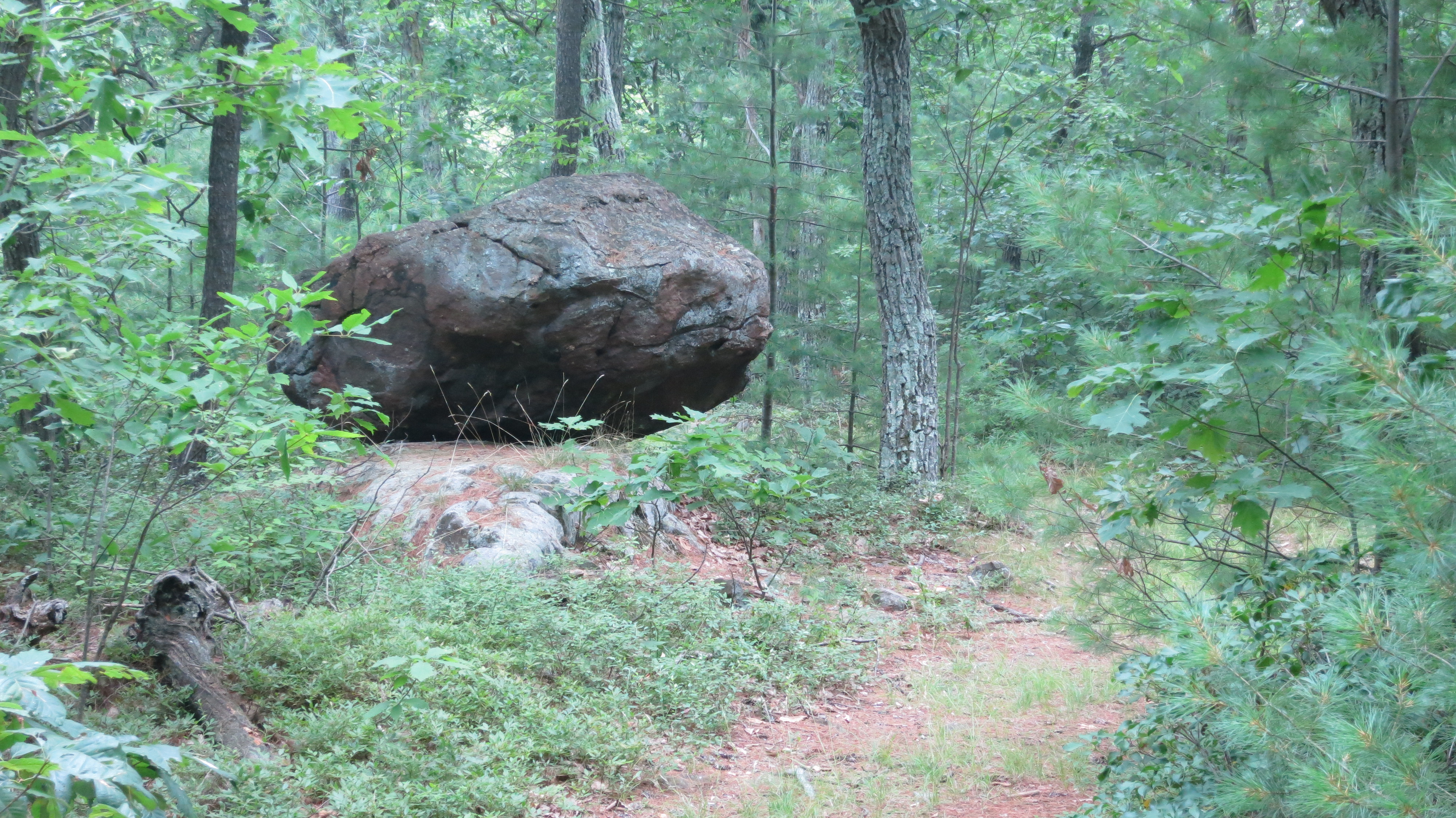 This large boulder was 'dropped' during one of the ice ages.